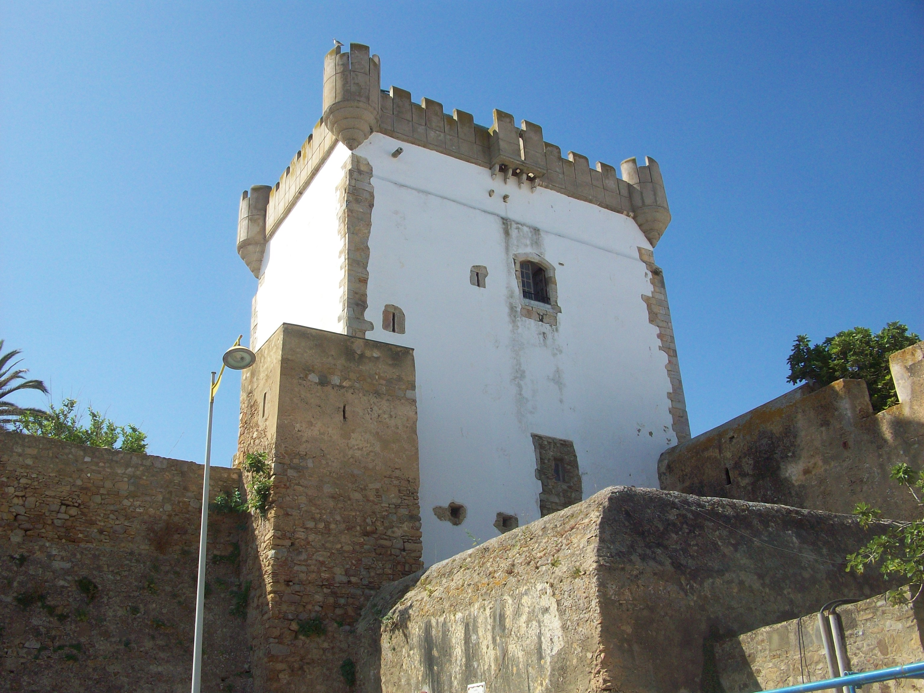 Assilah, Morocco